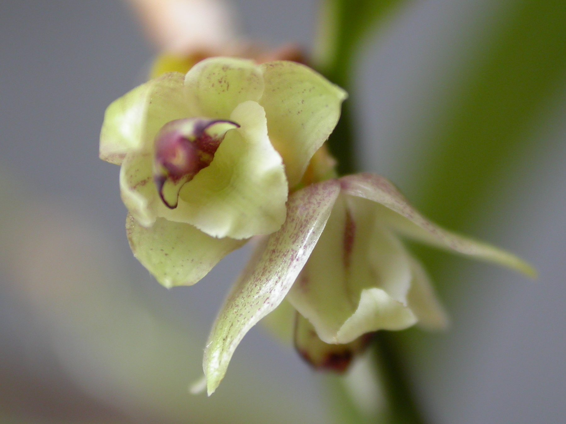 Scaphyglottis modesta flowers